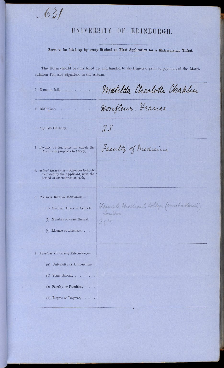 Matriculation Record, Matilda Chaplin. Edinburgh Seven Matriculation Records. University of Edinburgh